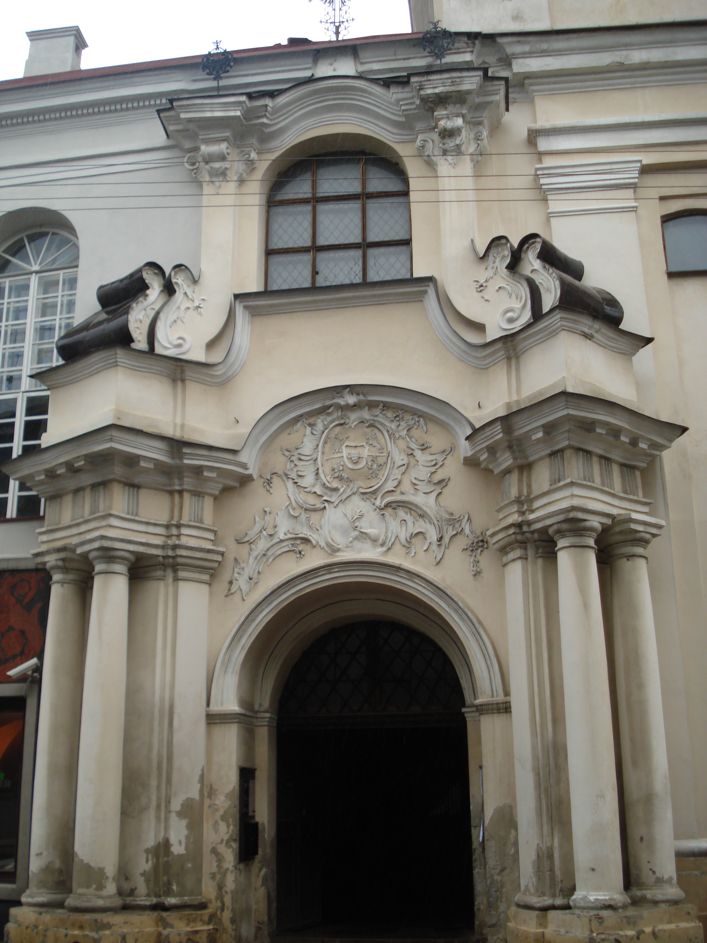 The Dominican Church of the Holy Spirit in Vilnius, Lithuania. Entrance